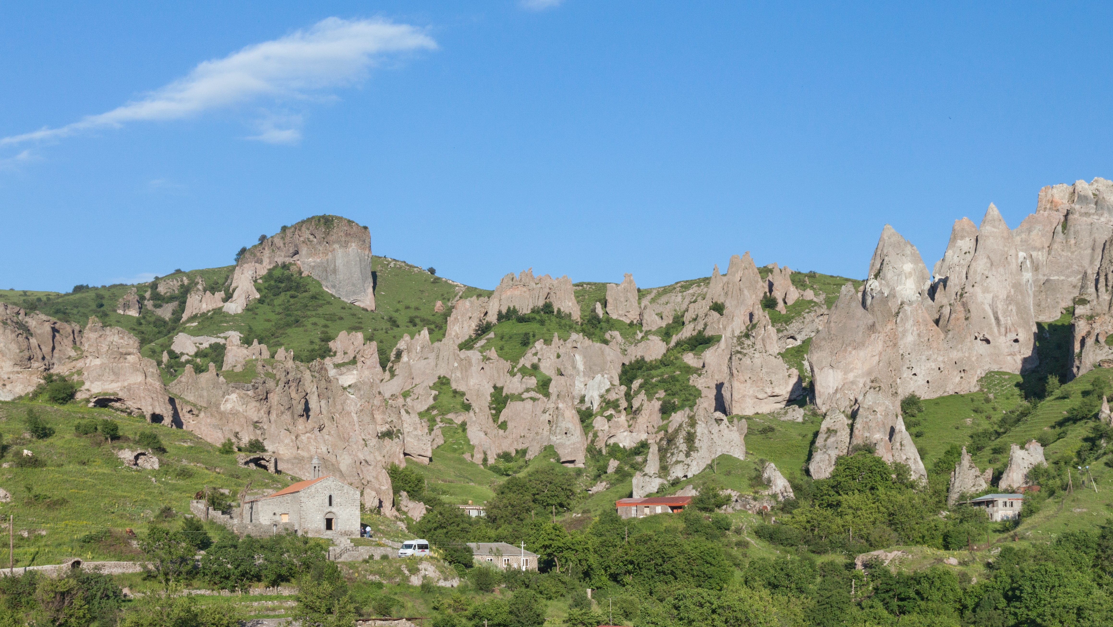 View of the Old Goris (Kores). Goris, Syunik Province, Armenia.